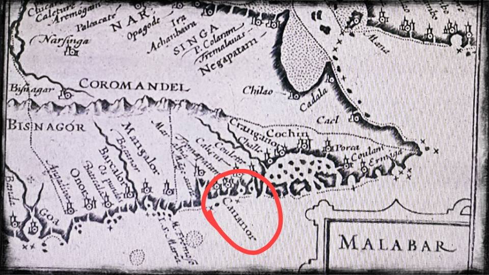 Kannur(Cananore) in the Malabar Providence